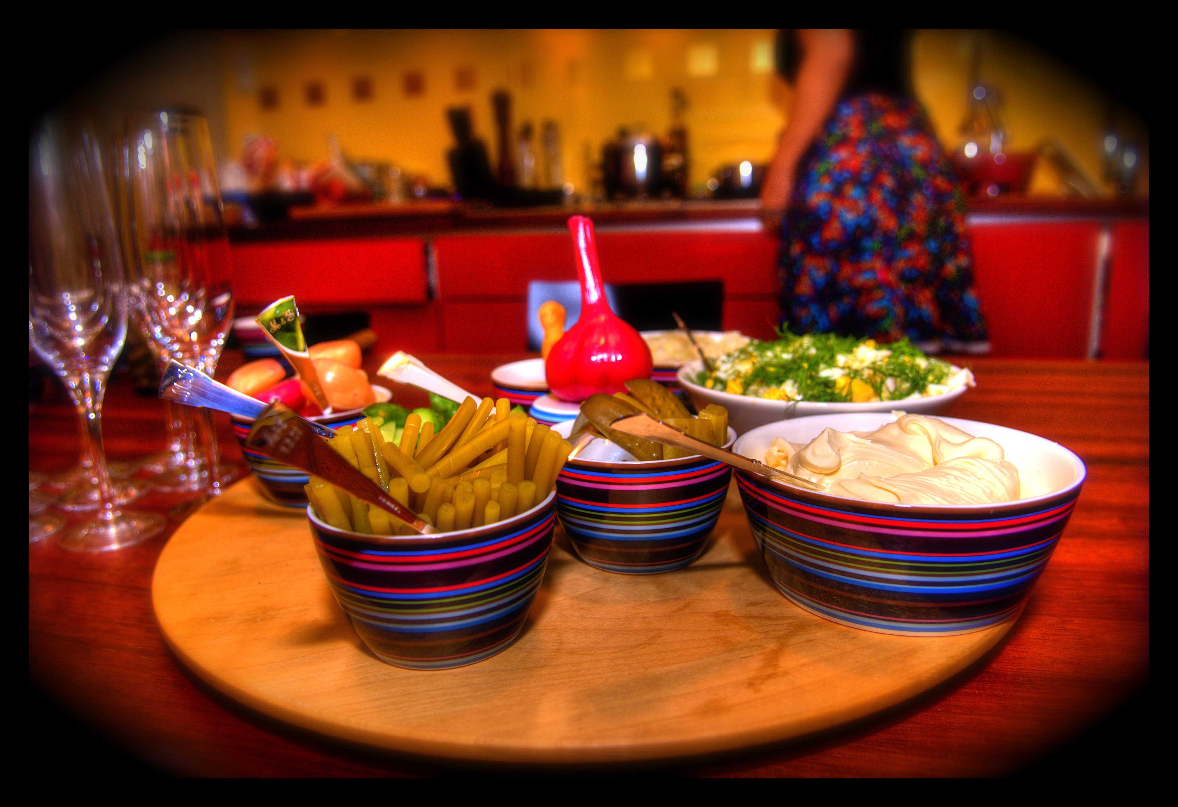 Georgian vegetables waiting to be devoured by a hungry group: pickles, garlic, smetana etc. Jussi and Meri's place in Punavuori. October 2006.